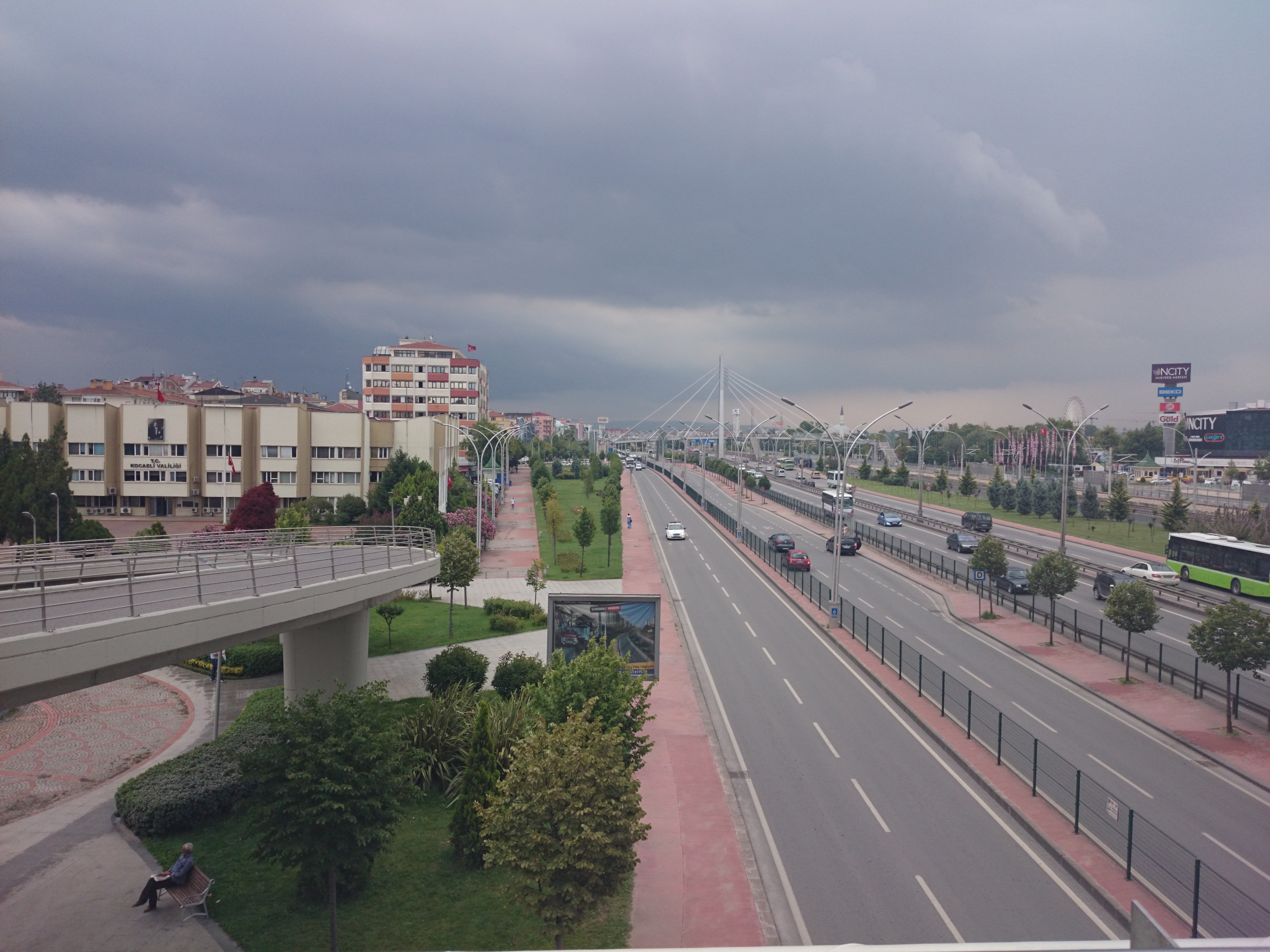 View from Izmit, Kocaeli